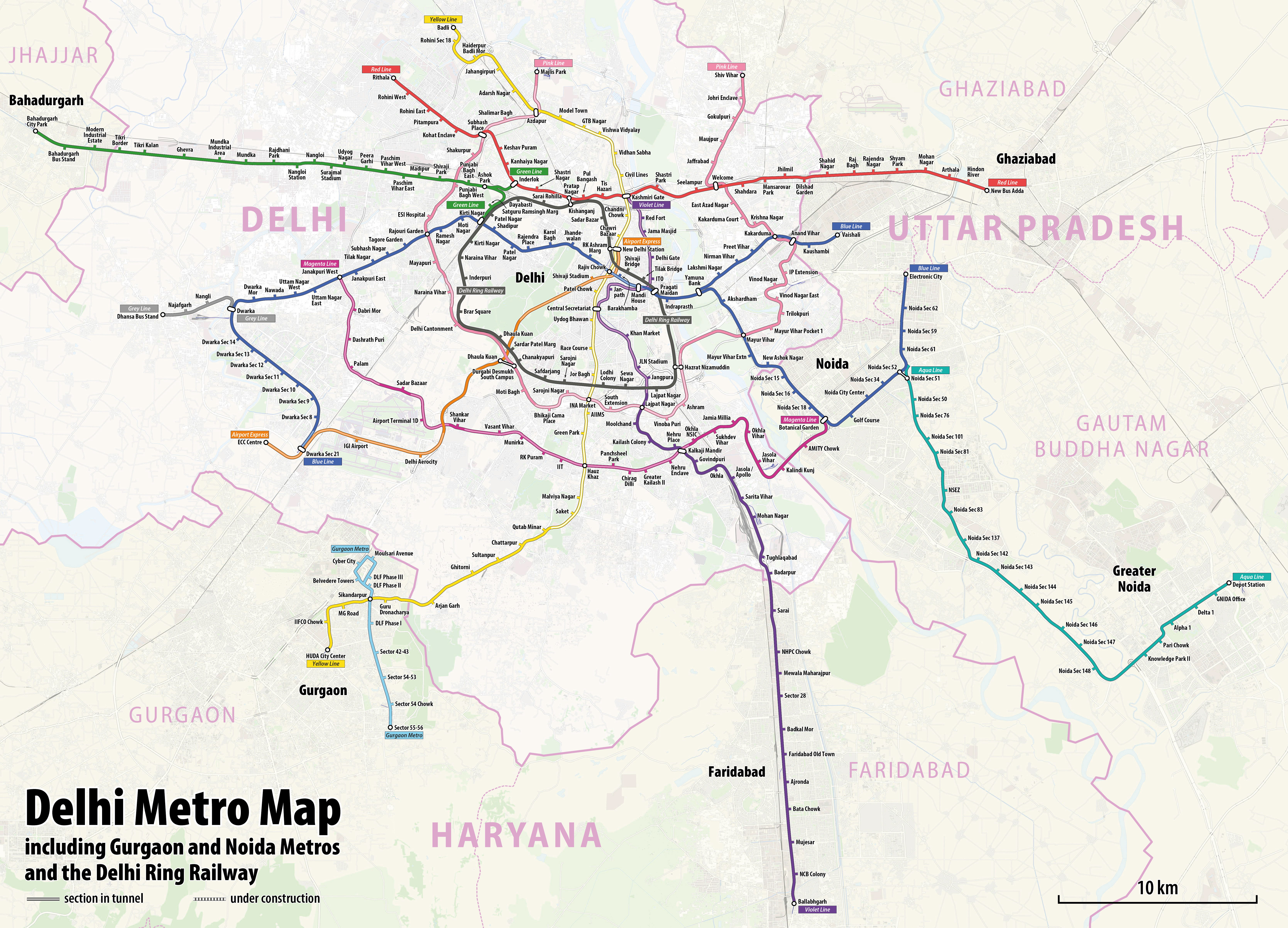 Map of the metro lines and the ring railway of Delhi